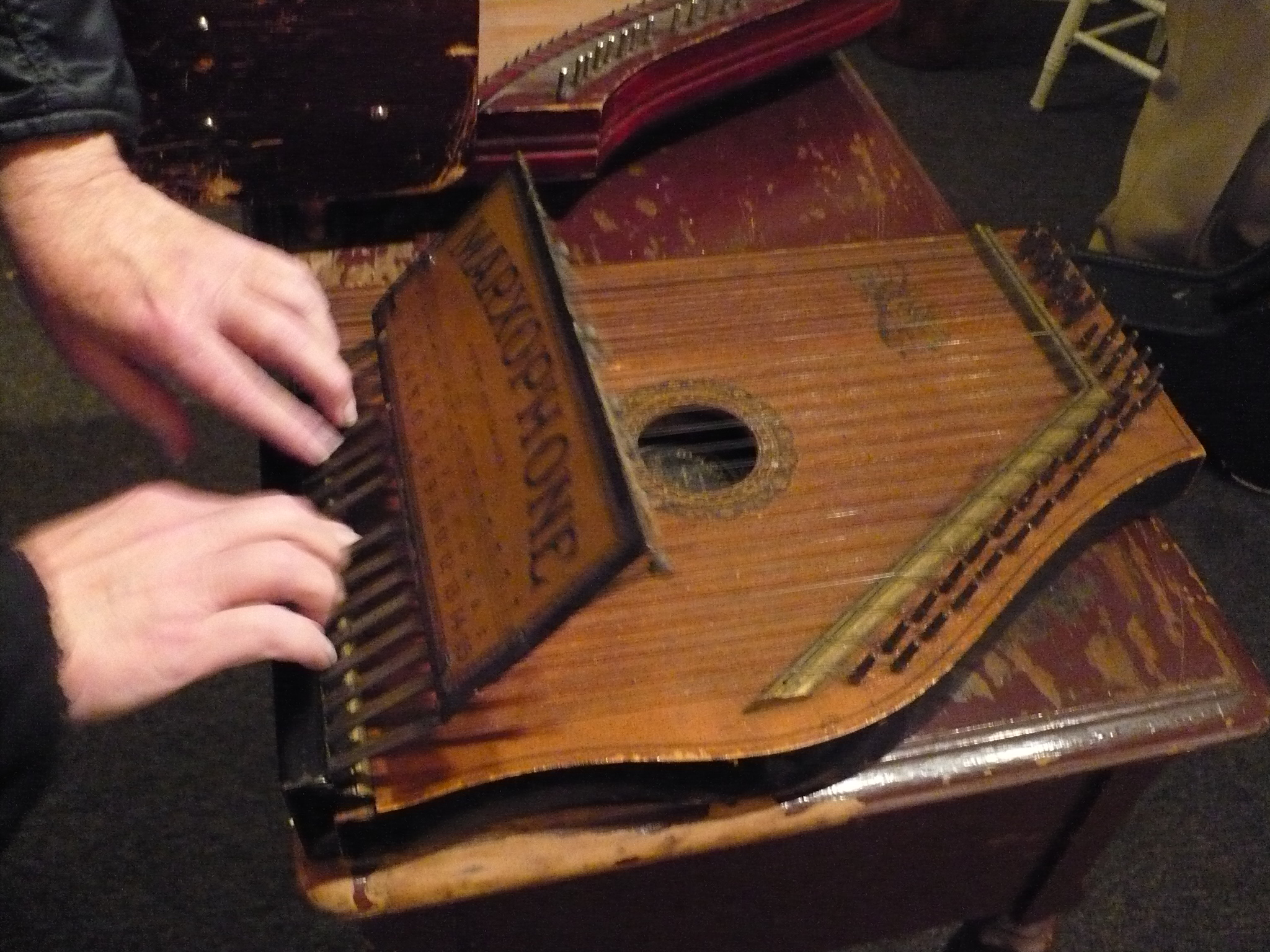 Rockin' Robin Montgomery playing a Marxophone belonging to Andy Cohen. Photo taken at the North Water Street Gallery in Kent, Ohio, United States.